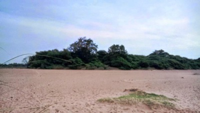 அரிய தங்கம் கோயில் மணல் திட்டு